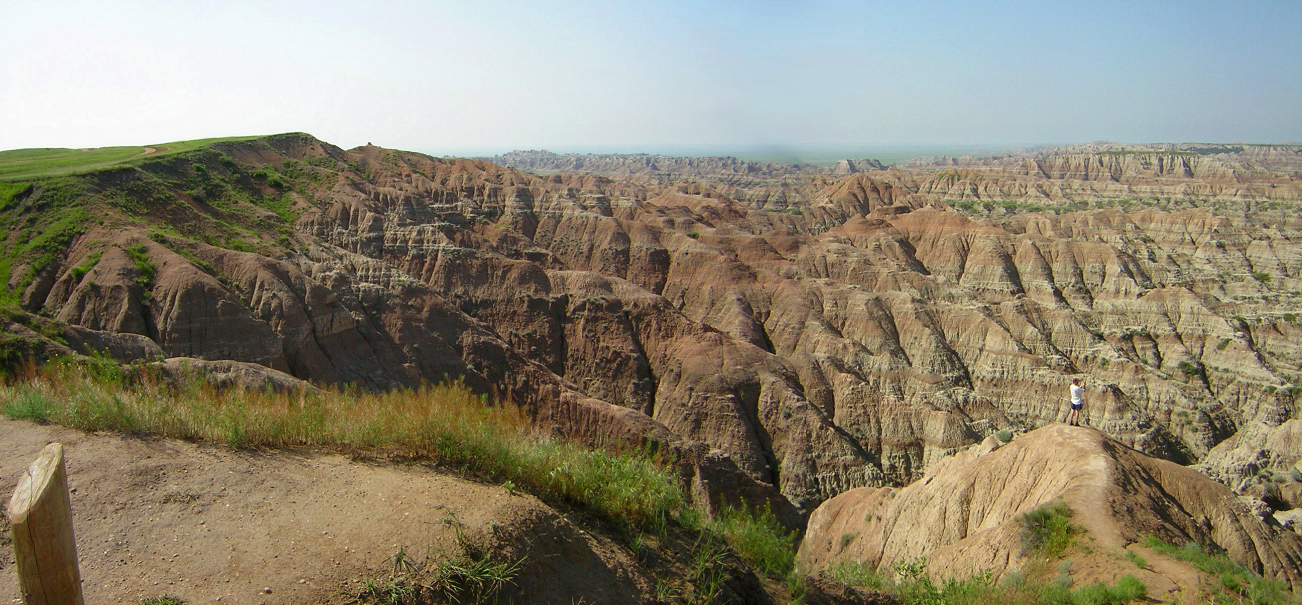 A panorama of Badlands National Park in South Dakota. Stitched together from separate photos in Photoshop.